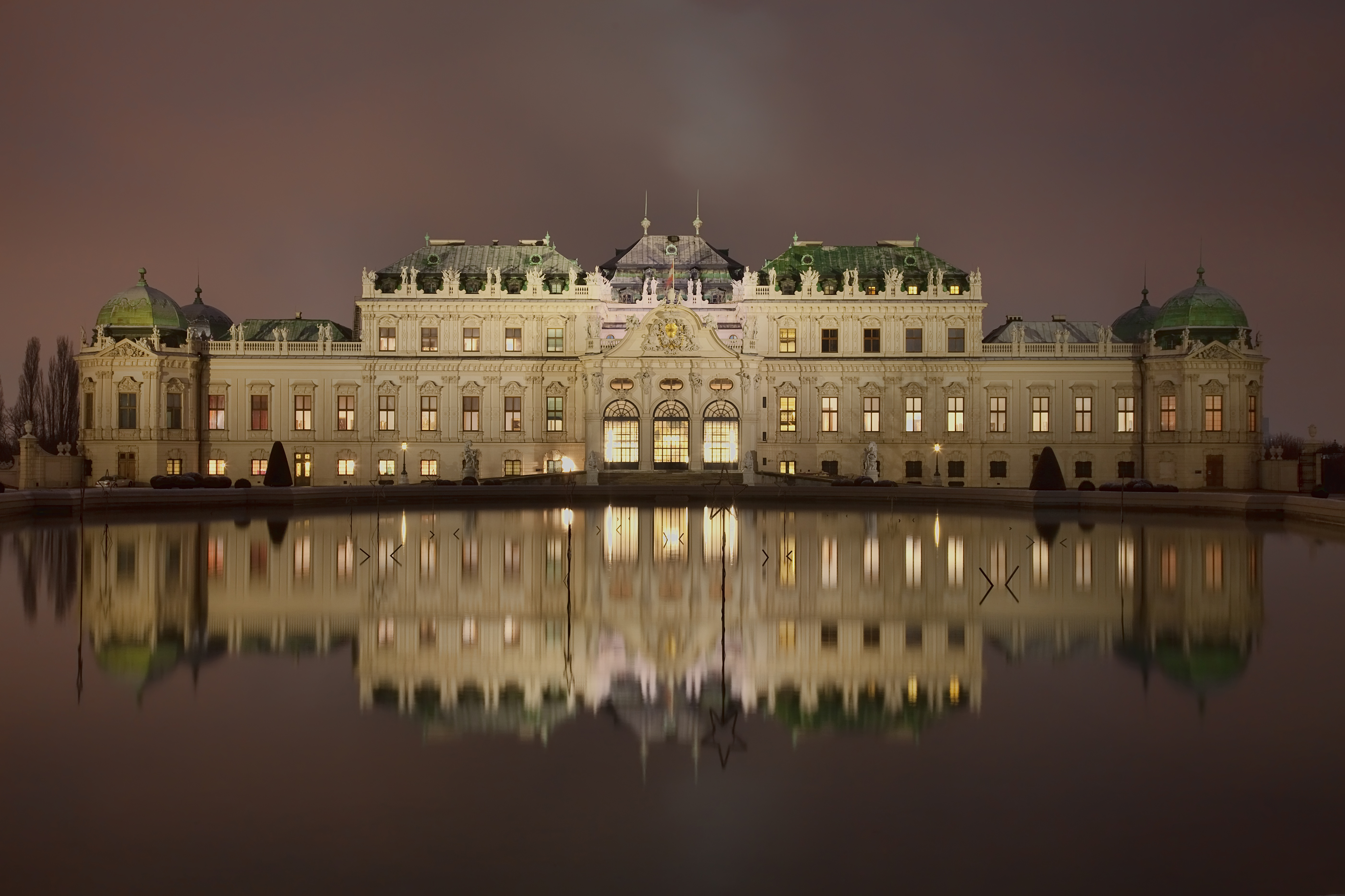 Night photograph of the Upper Belvedere palace in Vienna, Austria.